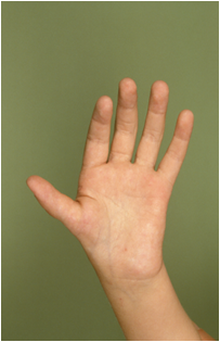 Thumb hypoplasia type 2, own work